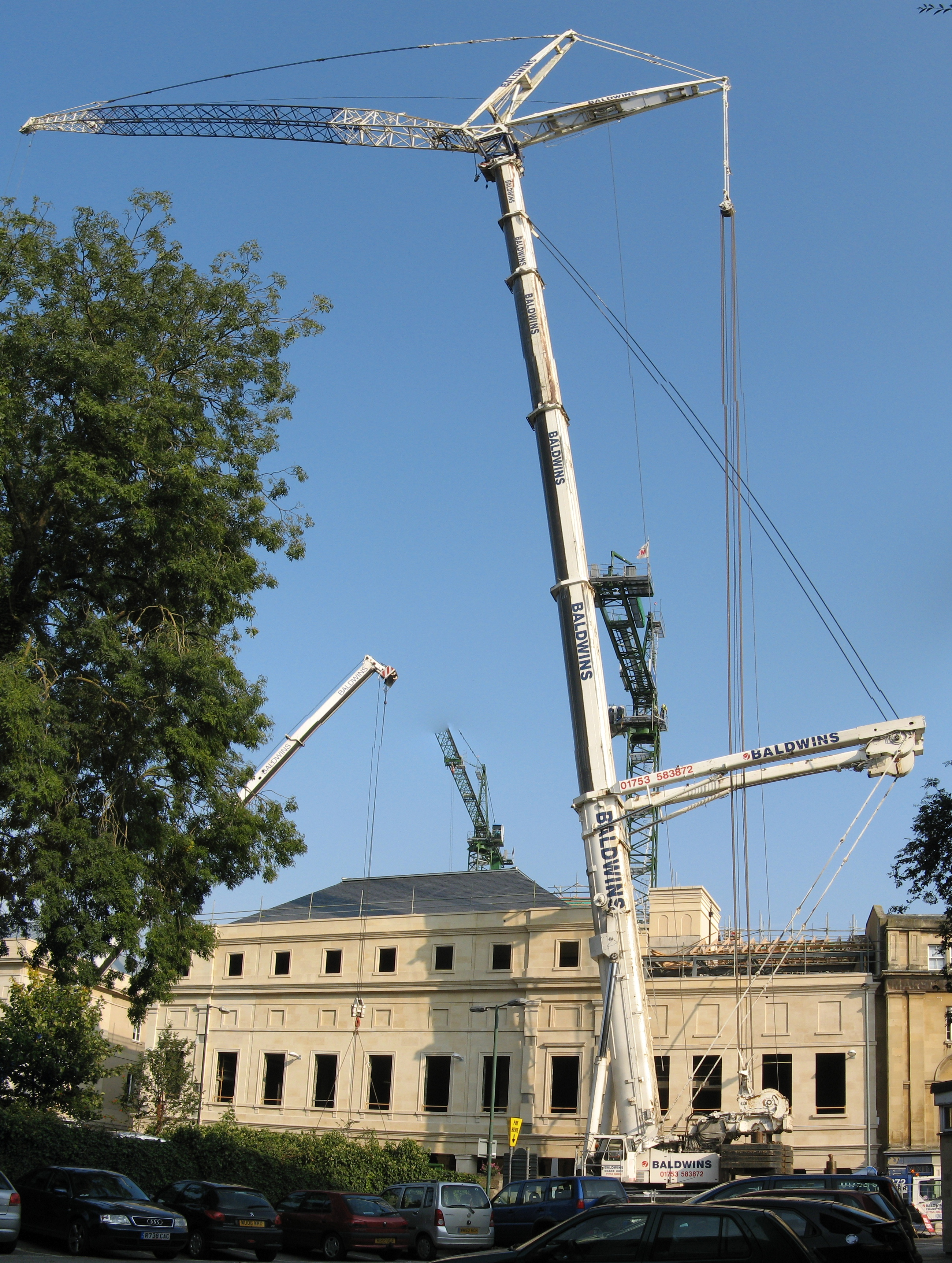 A temporary positioned telescopic tower crane assisting in the construction of SouthGate, Bath. Dorchester Street was closed[1] for this Liebherr crane[2] from Baldwins Crane Hire Limited.[3] From the wheel arrangement (8 axle in 3+3+2 config)[4] and 500T marking[5] it looks like it must be a Liebherr LTM 1500[6] or Liebherr LTM 1500-8.1[7]